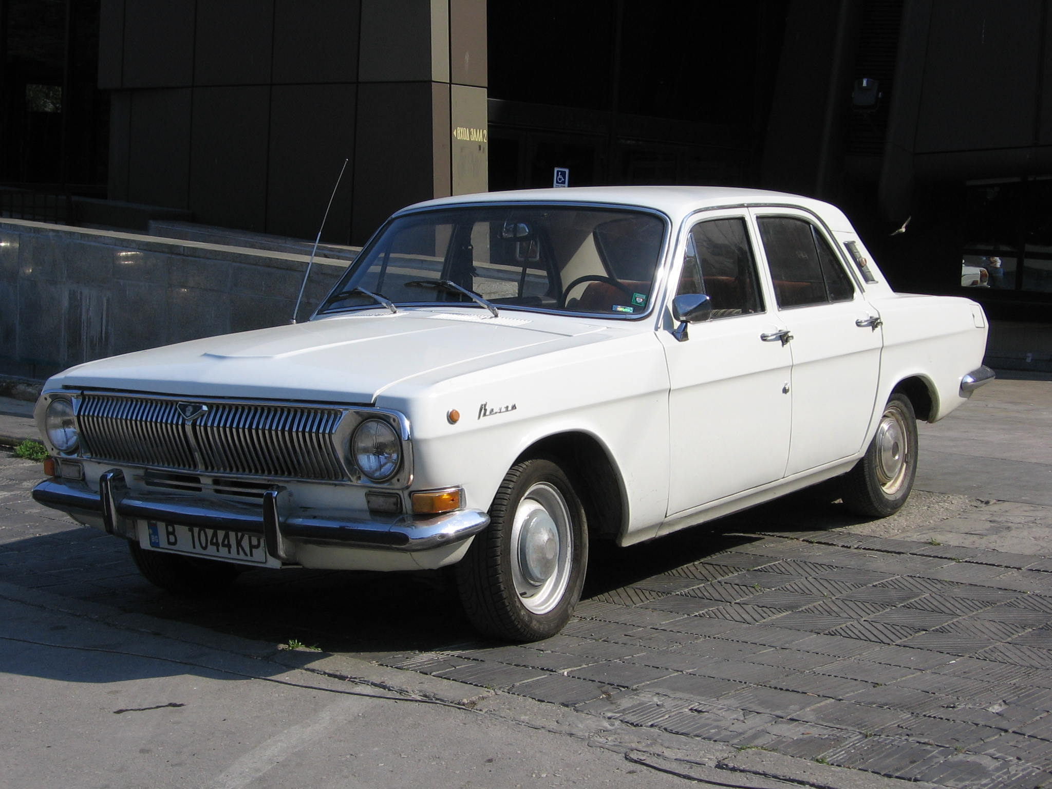 Volga GAZ-24 produced between 1977 and 1985, in Bulgaria, 2007.